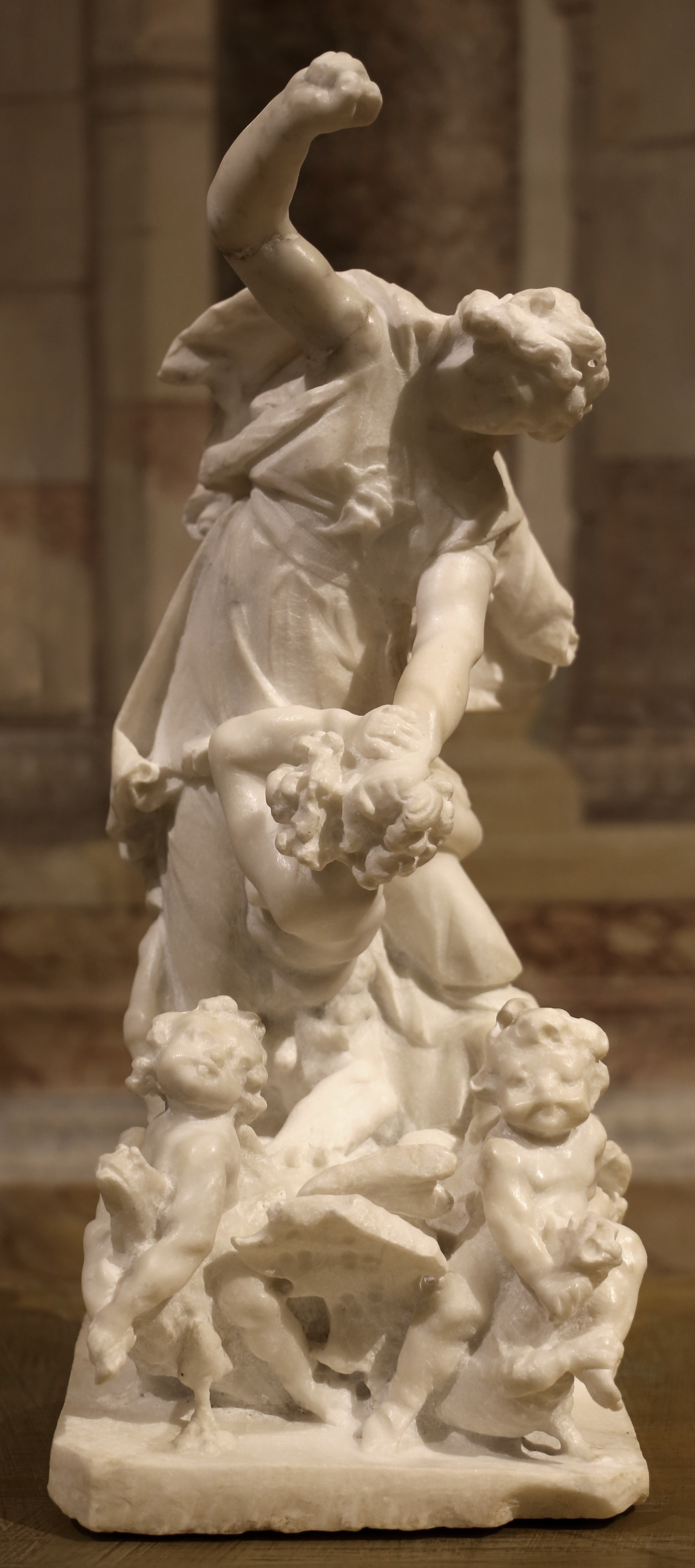 Mostra Gianlorenzo Bernini, Roma 2018